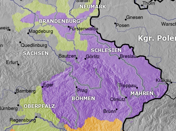 Kingdom of Bohemia in 14th Century